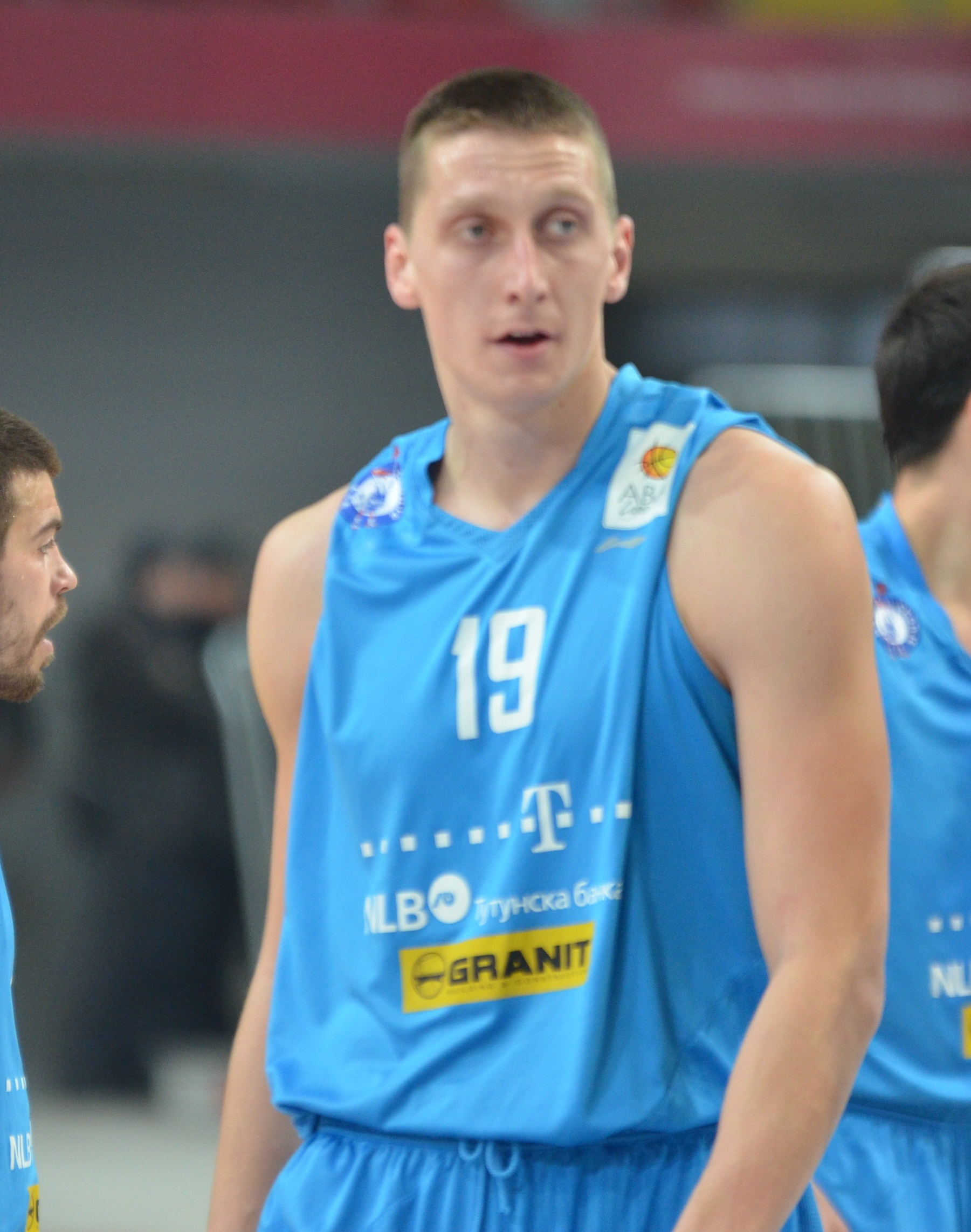 Урош Нико